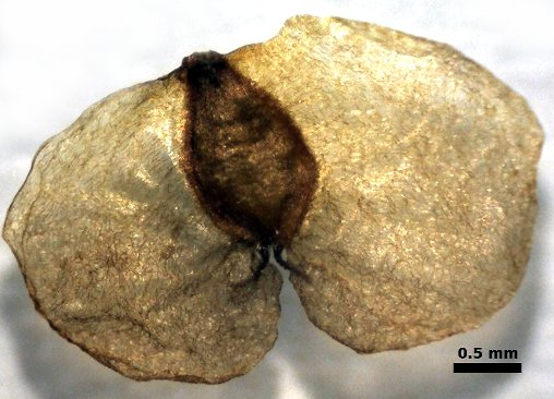 Seed of Betula pendula